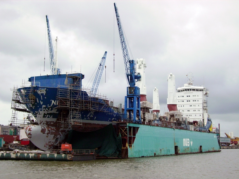 Nirint Atlas, in a floating dock of MWB in Bremerhaven,Germany